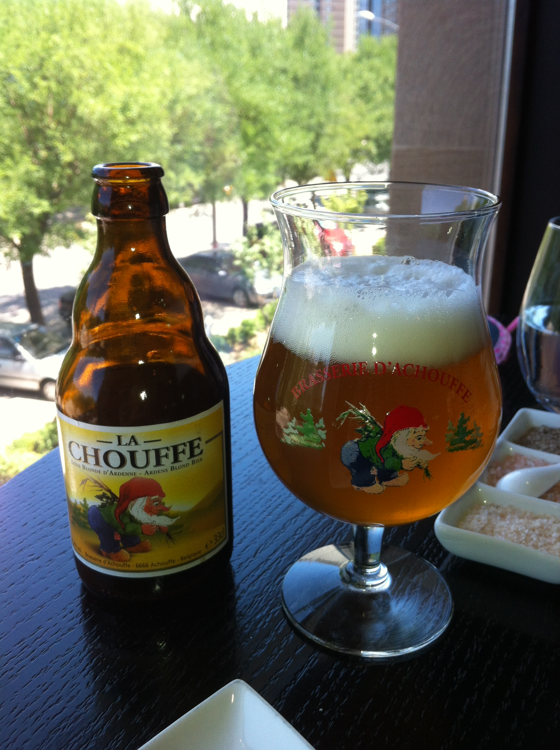 La Chouffe and its glass